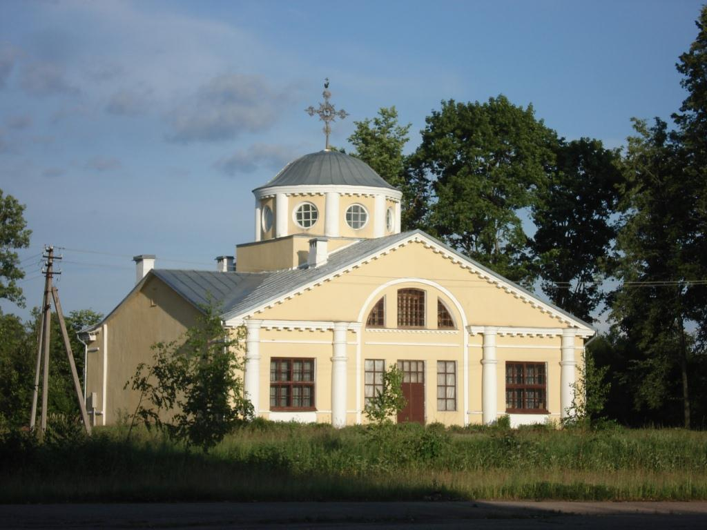 Building of the former Zemgale railway station, now used as a Catholic church.